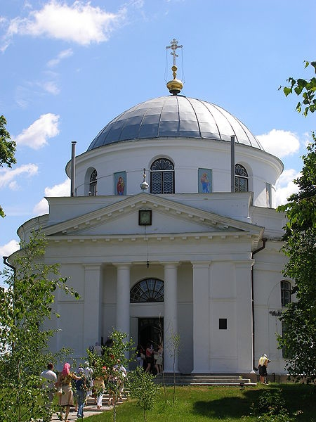 Church of St. Nicholas in the urban settlement Dikanka. The architect of N. A. Lvov, 1797.